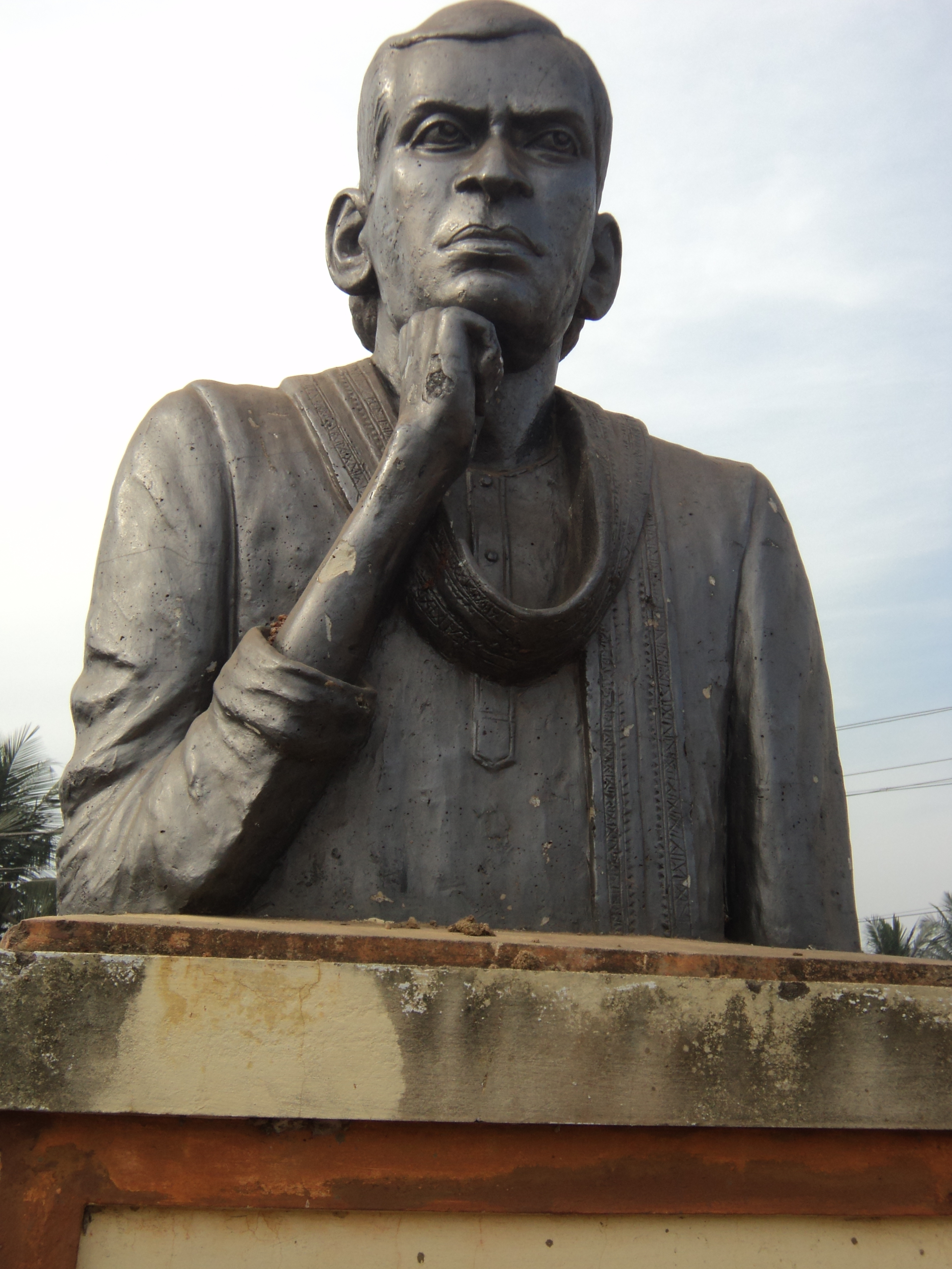 This is photograph of Statue of Garimella Satyanarayana in Srikakulam taken by me.Rajasekhar1961 (talk) 12:00, 21 February 2012 (UTC)